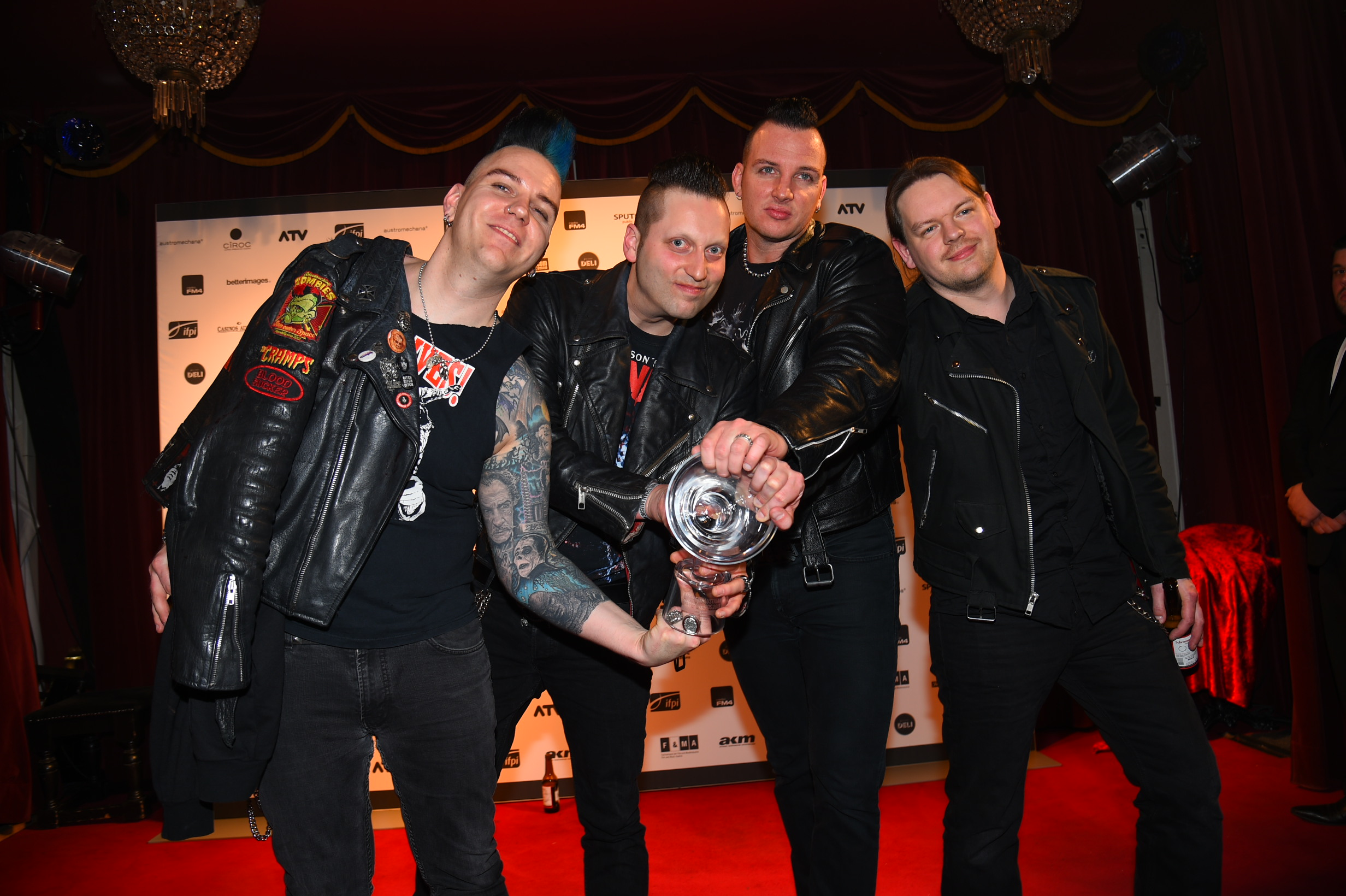 Amadeus Music Awards 2015,Volkstheater, Wien, 29.3.2015, BLOODSUCKING ZOMBIES FROM OUTER SPACE